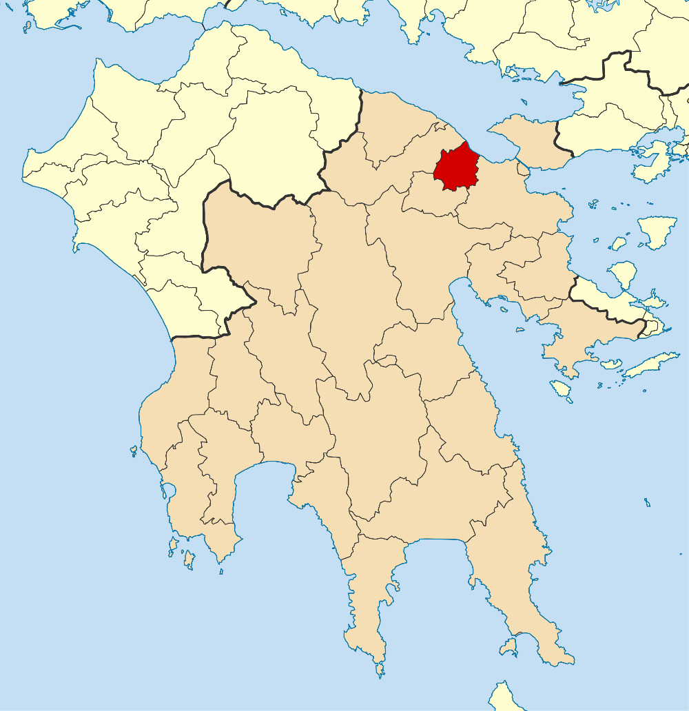 Locator map for Velo-Vocha municipality in Greek region Peloponnese (2011)